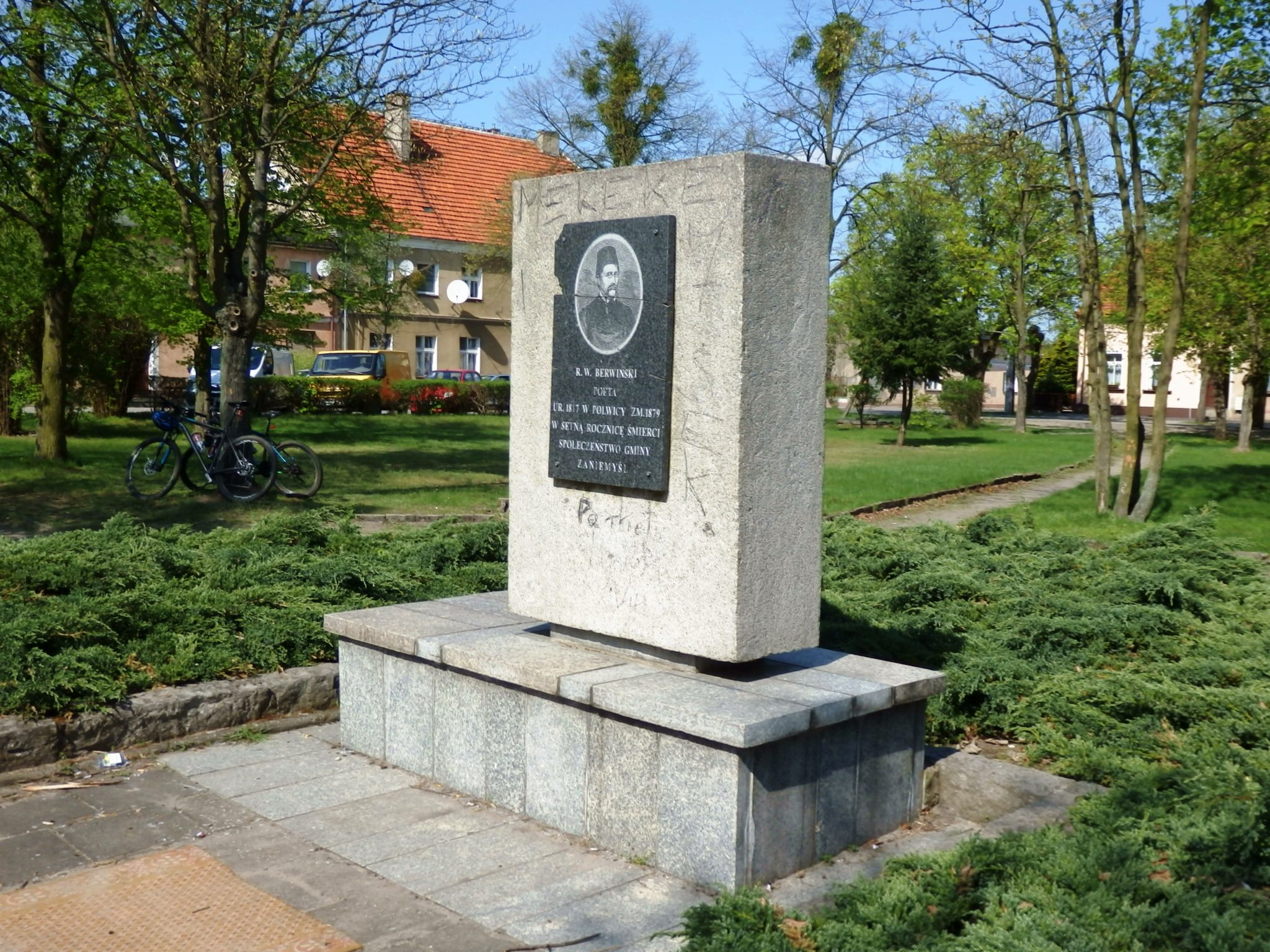 Ryszard Bewiński Monument in Zaniemyśl